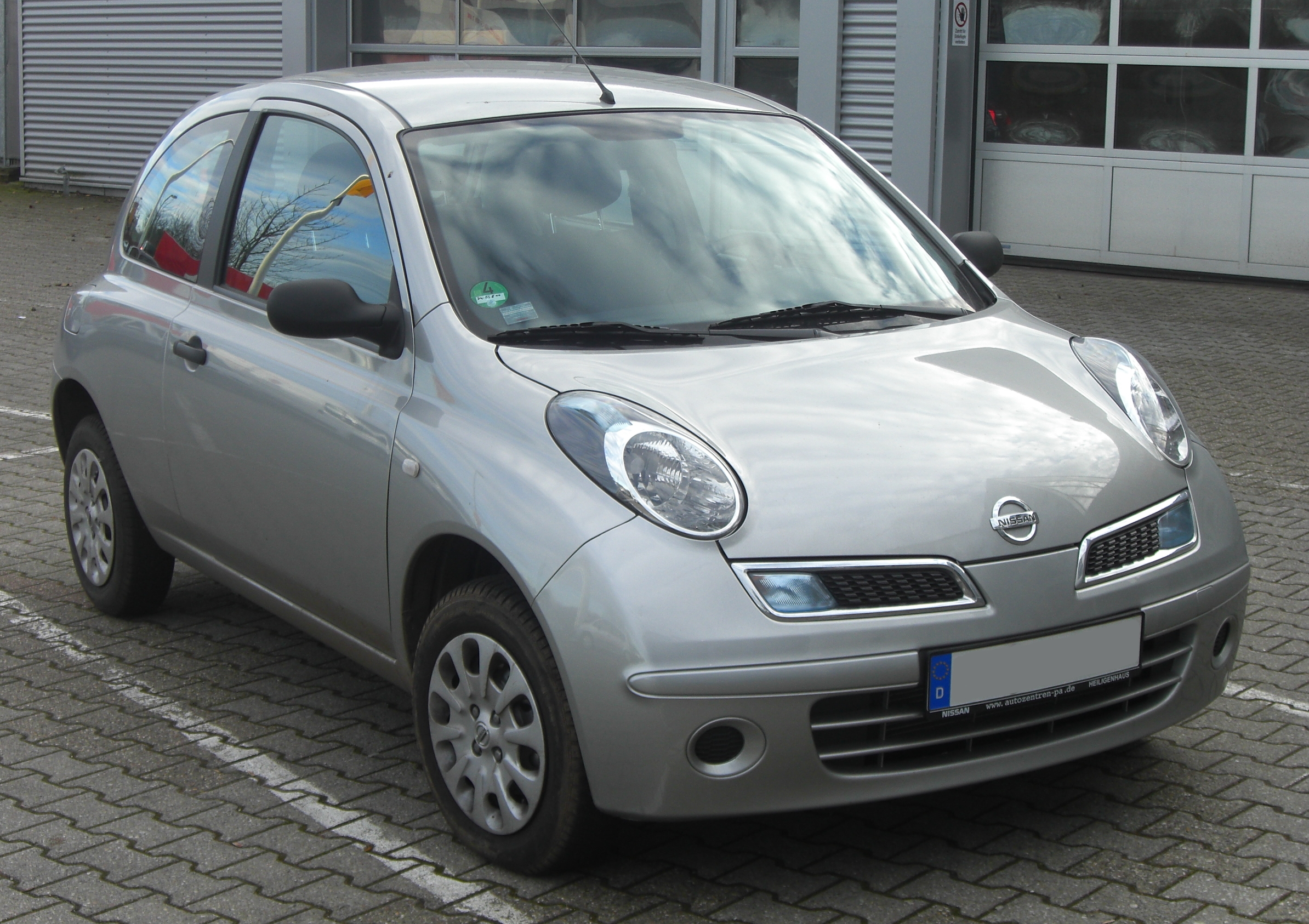 Description: Nissan Micra III Source: Matthias Other Version(s)